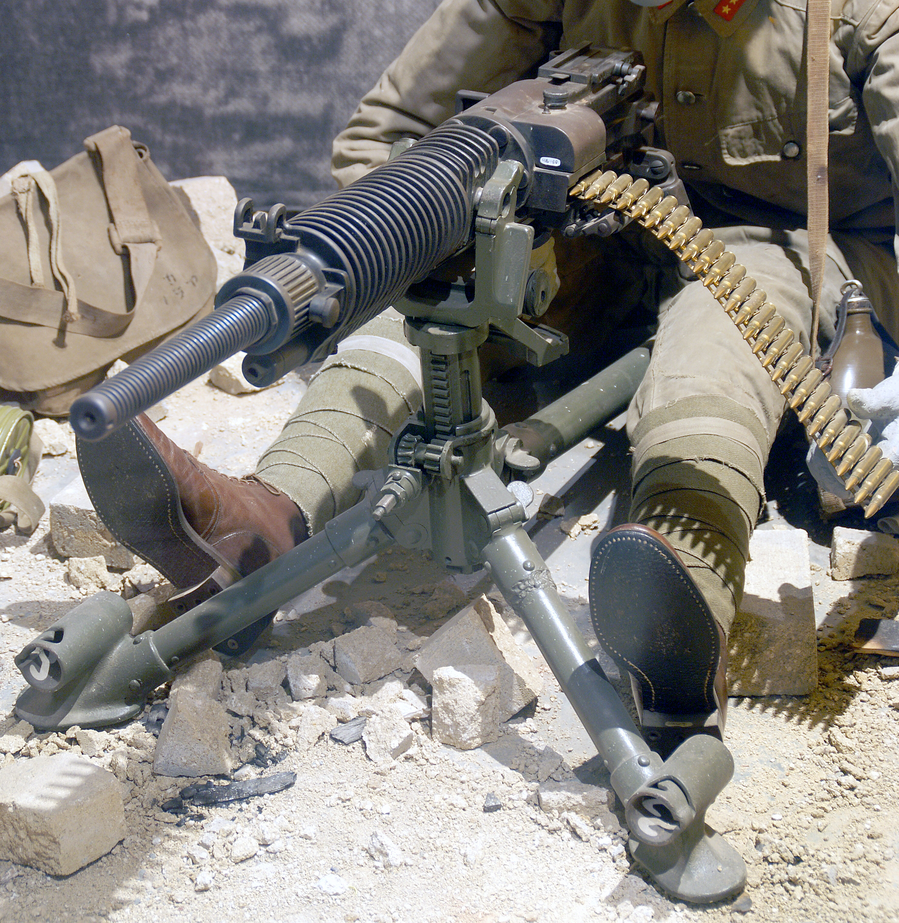 Exhibit caption: Japanese Heavy Machine Gun Type 92 7.7mm, 1932. This gas operated weapon is fully automatic feeding from 30 round metal strips, and air cooled by large flanges around the barrel. Exhibited at: Battery Randolf US Army Museum, Honolulu, Hawaii.